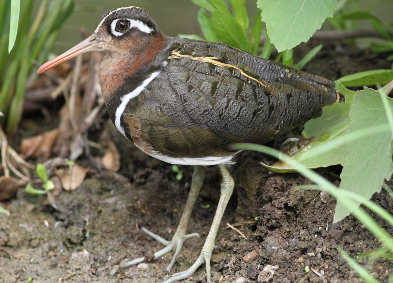 Greater Painted-snipe, Rostratula benghalensis - female